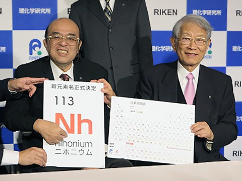 Kōsuke Morita, Professor of the Faculty of Science, Kyushu University, and Kōji Morimoto, Leader of the Superheavy Element Device Development Team, Research Group for Superheavy Element, Nishina Center for Accelerator-Based Science, Riken, attended the press conference with Hiroshi Matsumoto, President of the Riken, and Hideto En'yo, Director of Nishina Center for Accelerator-Based Science, Riken, in Fukuoka City, Fukuoka Prefecture on December 1, 2016.